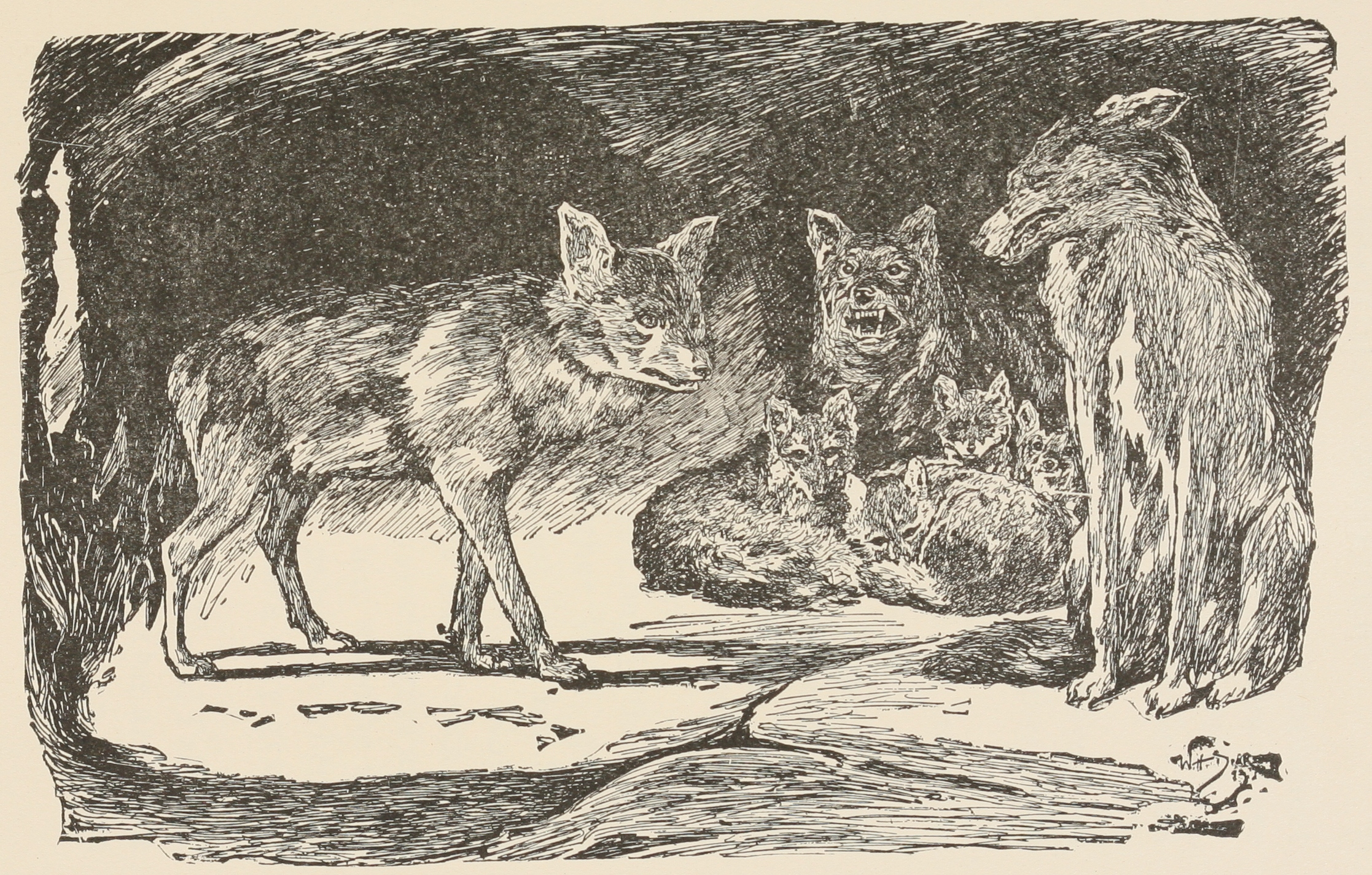 "Good luck go with you, O chief of the wolves."